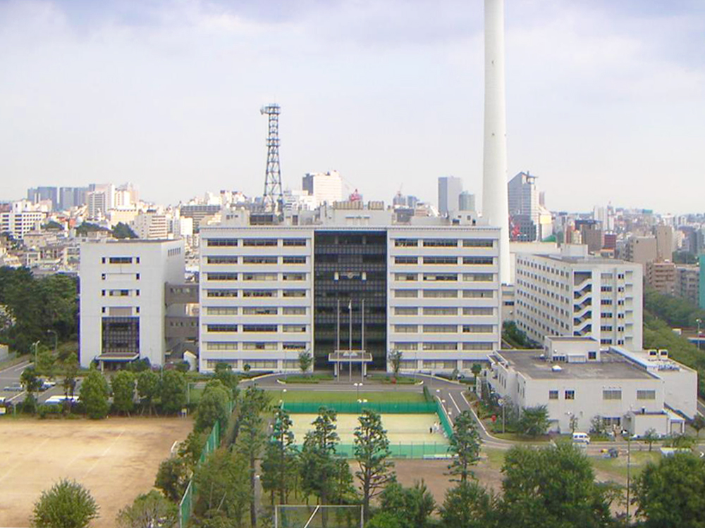 JGSDF Staff college